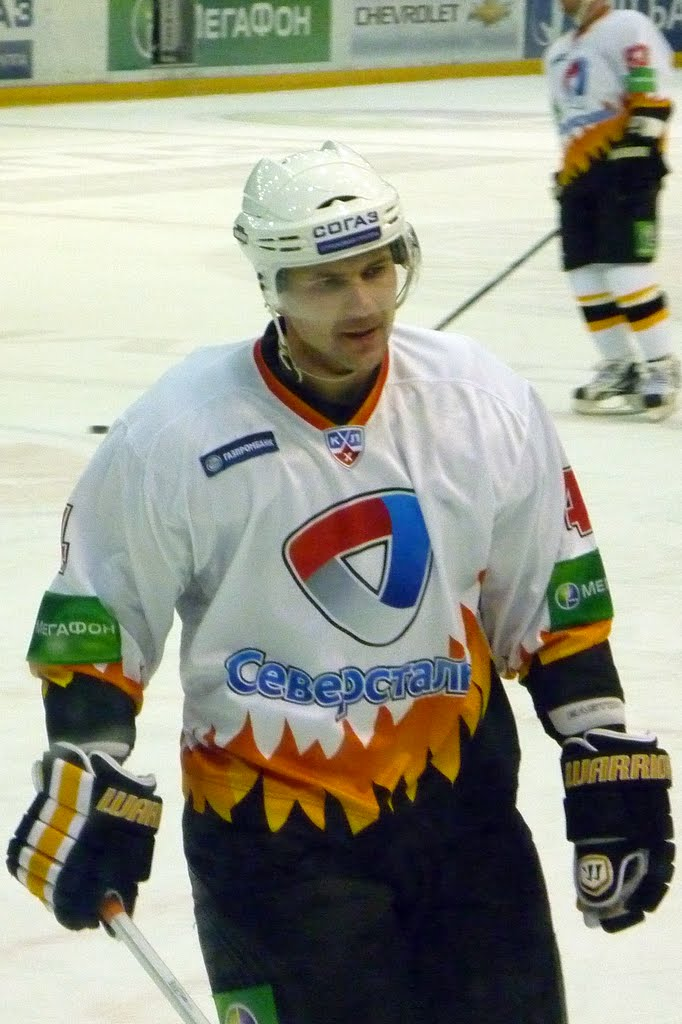 Denis Baev